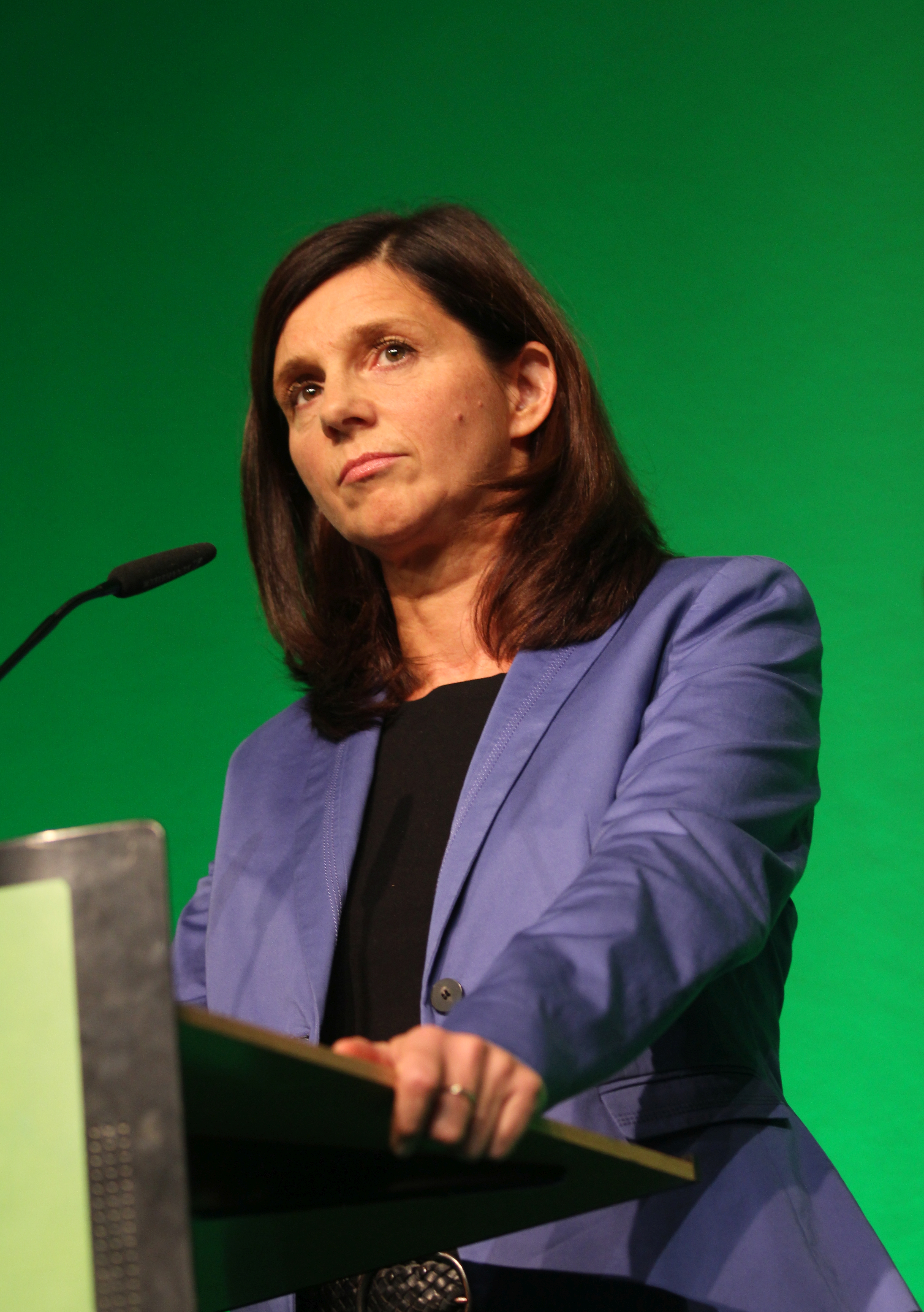 The federal election party Alliance '90/The Greens for the parliamentary election in 2013 Katrin Göring-Eckardt, Katrin Göring-Eckardt, German politician, MdB, Vice President of the Bundestag